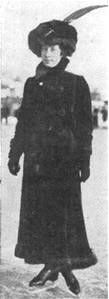 Opika-von-Meray-Horvath-1910s